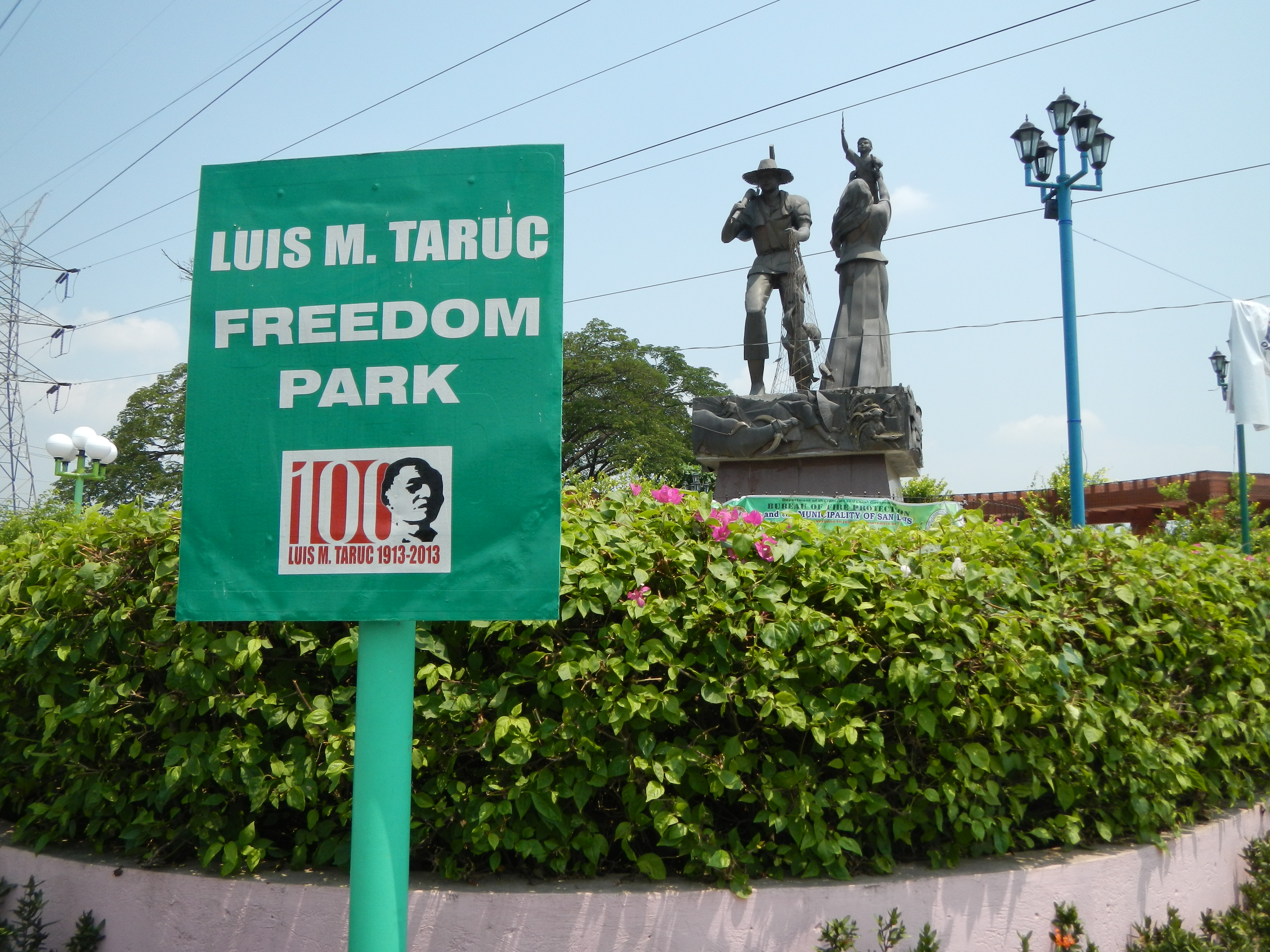 [1] Province - town of San Luis, Pampanga: Luis M. Taruc Freedom Park (San Luis, Pampanga) in Barangay San Sebastian, beside Barangay Santa Cruz Poblacion along the Baliuag-Candaba-San Luis Provincial Road.